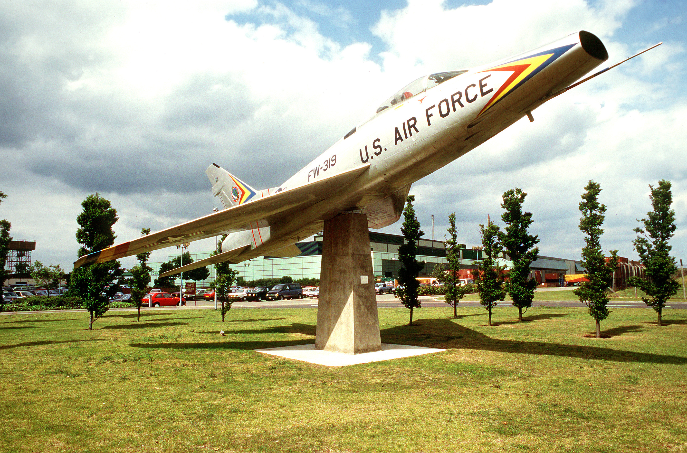 A North American F-100D-15-NA Super Sabre (s/n 54-2269) displayed on a permanent stand at RAF Lakenheath (UK) just in side the Brandon Gate. This aircraft was originally delivered to the French air force. On return it was moved to the "Wings of Liberty Memorial Park" at RAF Lakenheath. Firstly it was painted as 55-4048, latterly as 56-3319. The original F-100D-90-NA 56-3319 (492nd TFS, 48th TFW) crashed 50 km south-south-east of Wheelus air base, Libya, on 18 March 1969. The pilot ejected safely.